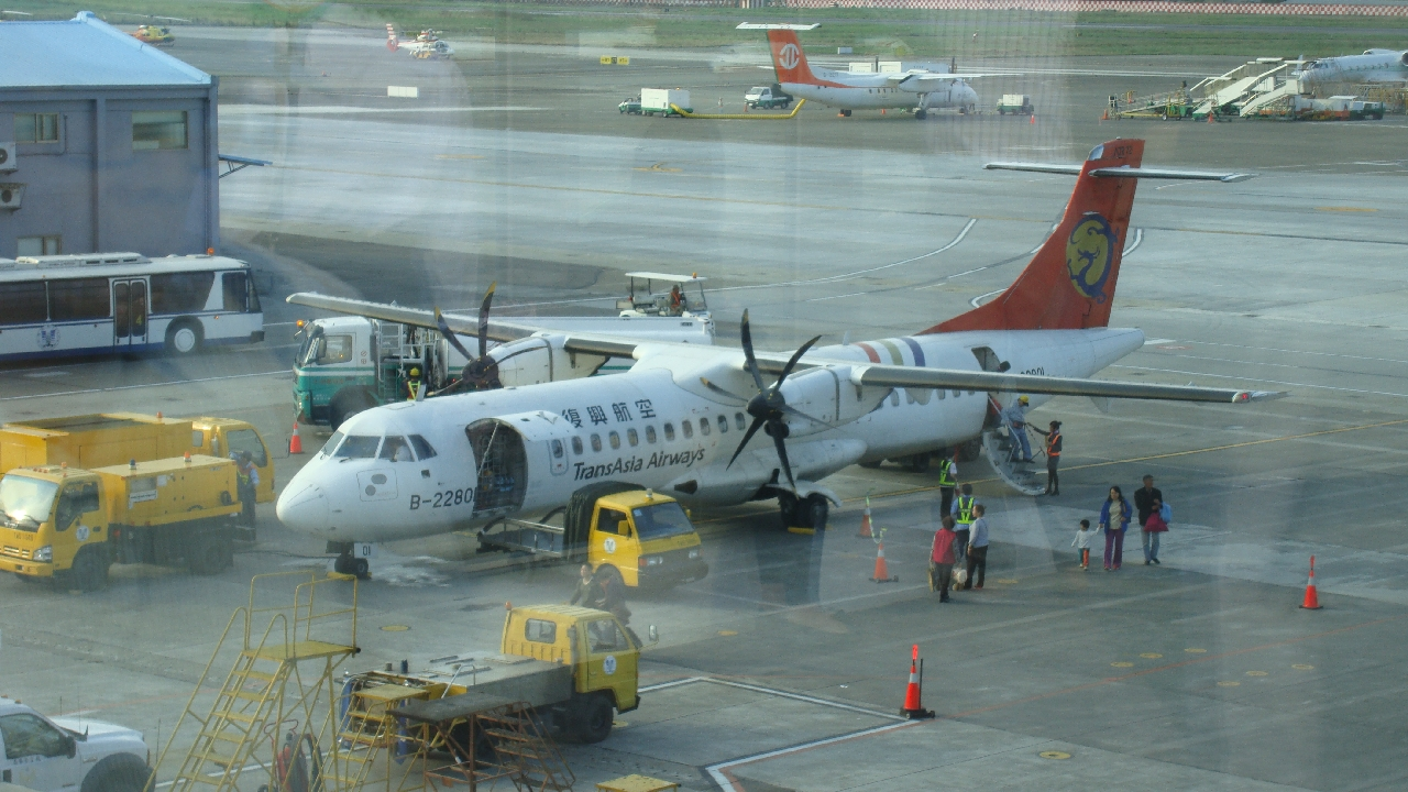 TransAsia Airways ATR72 domestic flights stop at Songshan Airport